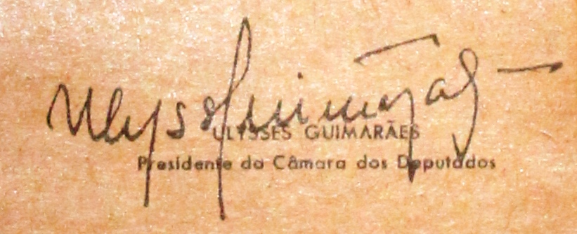 Ulysses Guimarães signature